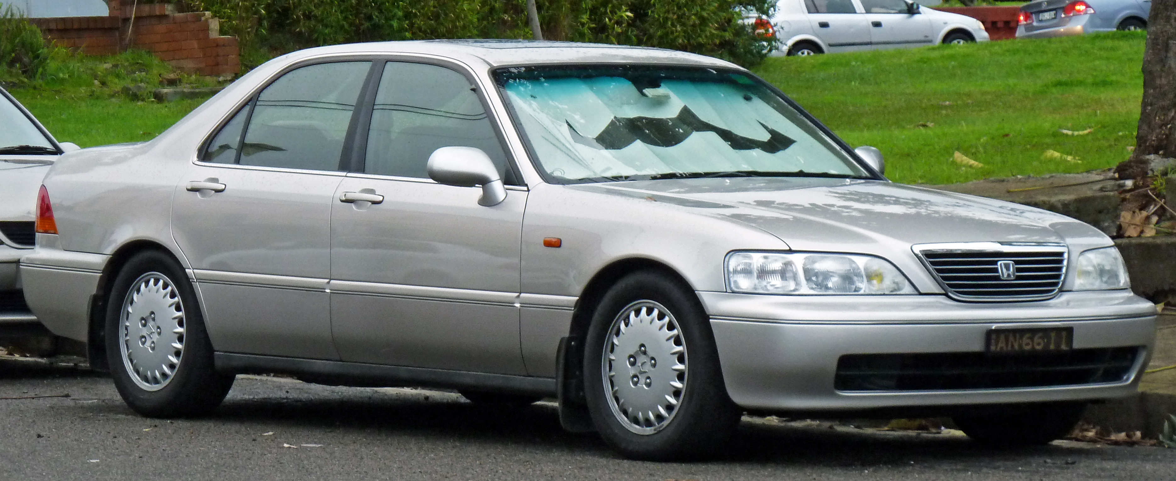 1996–1998 Honda Legend (KA9) sedan. Photographed in Sydenham, New South Wales, Australia.